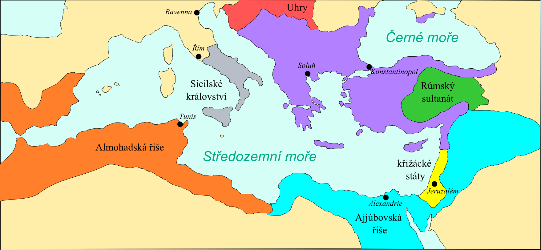 A map of the Byzantine Empire, c.1180AD Czech version of map.